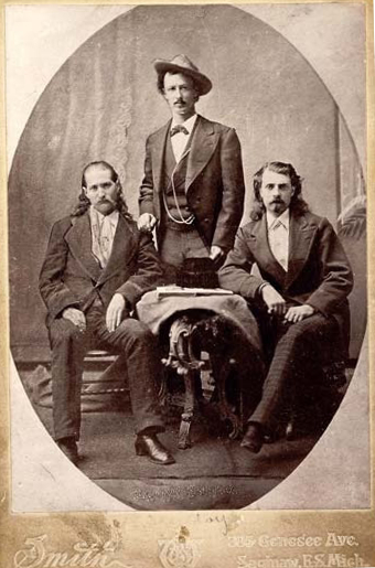 Wild Bill, Texas Jack Omohundro, and Buffalo Bill Cody